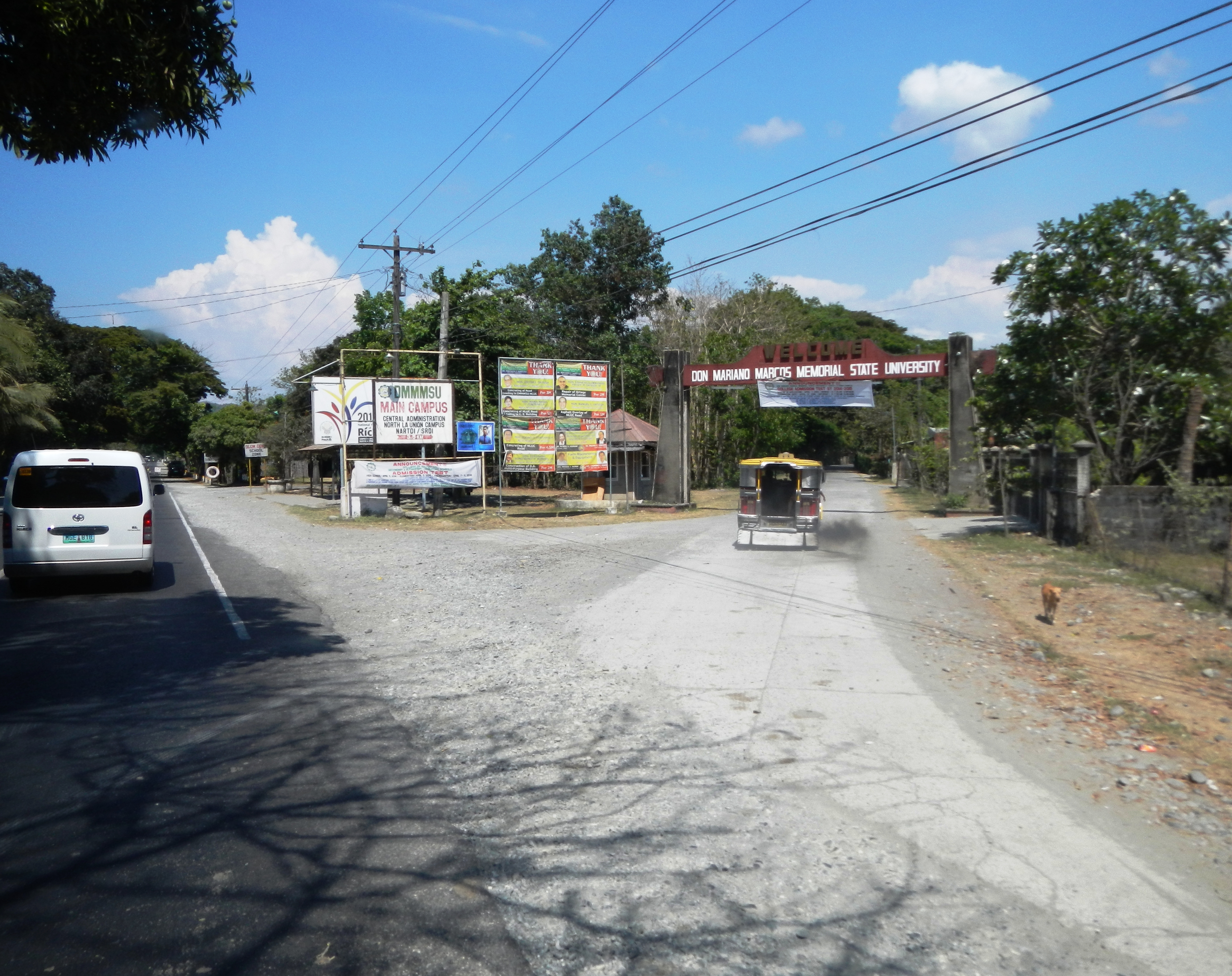 DMMMSU Don Mariano Marcos Memorial State University.Main Campus Central Administration North La Union Campus.